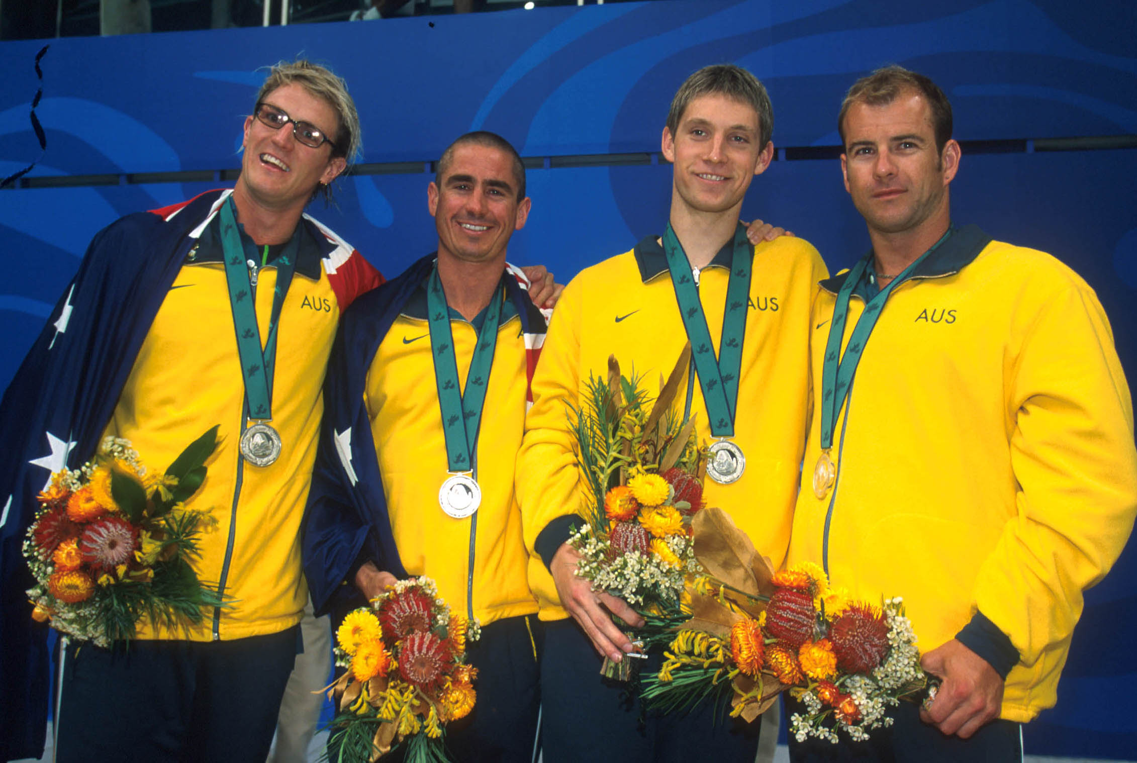 (L-R) Australian swimmers Alex Harris, Cameron De Burgh, Ben Austin and Scott Brockenshire with their silver medals that they won as the Australian Men's 4 x 100 m Freestyle Relay 34pts team, 2000 Sydney Paralympic Games. Other team members not shown were: Shane Walsh, Justin Eveson and Brendan Burkett.